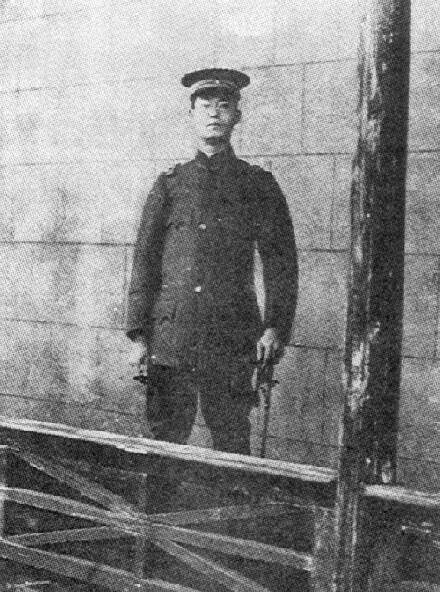 Zhang Qihuang (1877－1927)